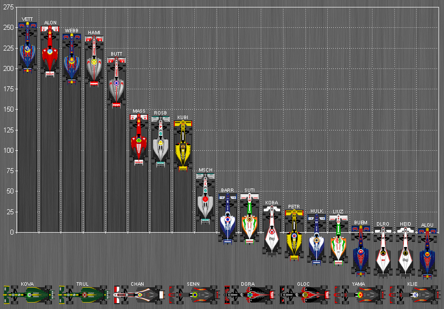 chart of final standings of 2010 Formula One season